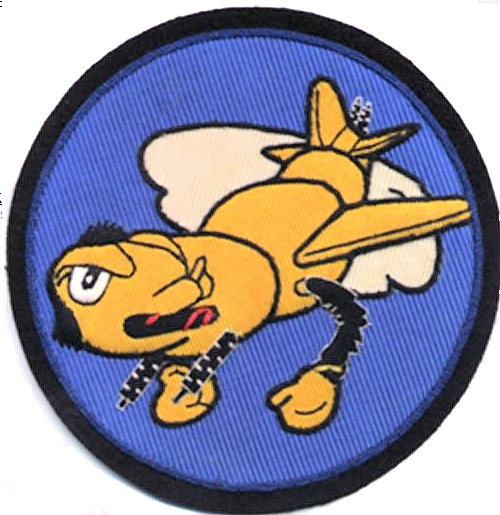 Emblem of the 478th Bombardment Squadron (World War II)